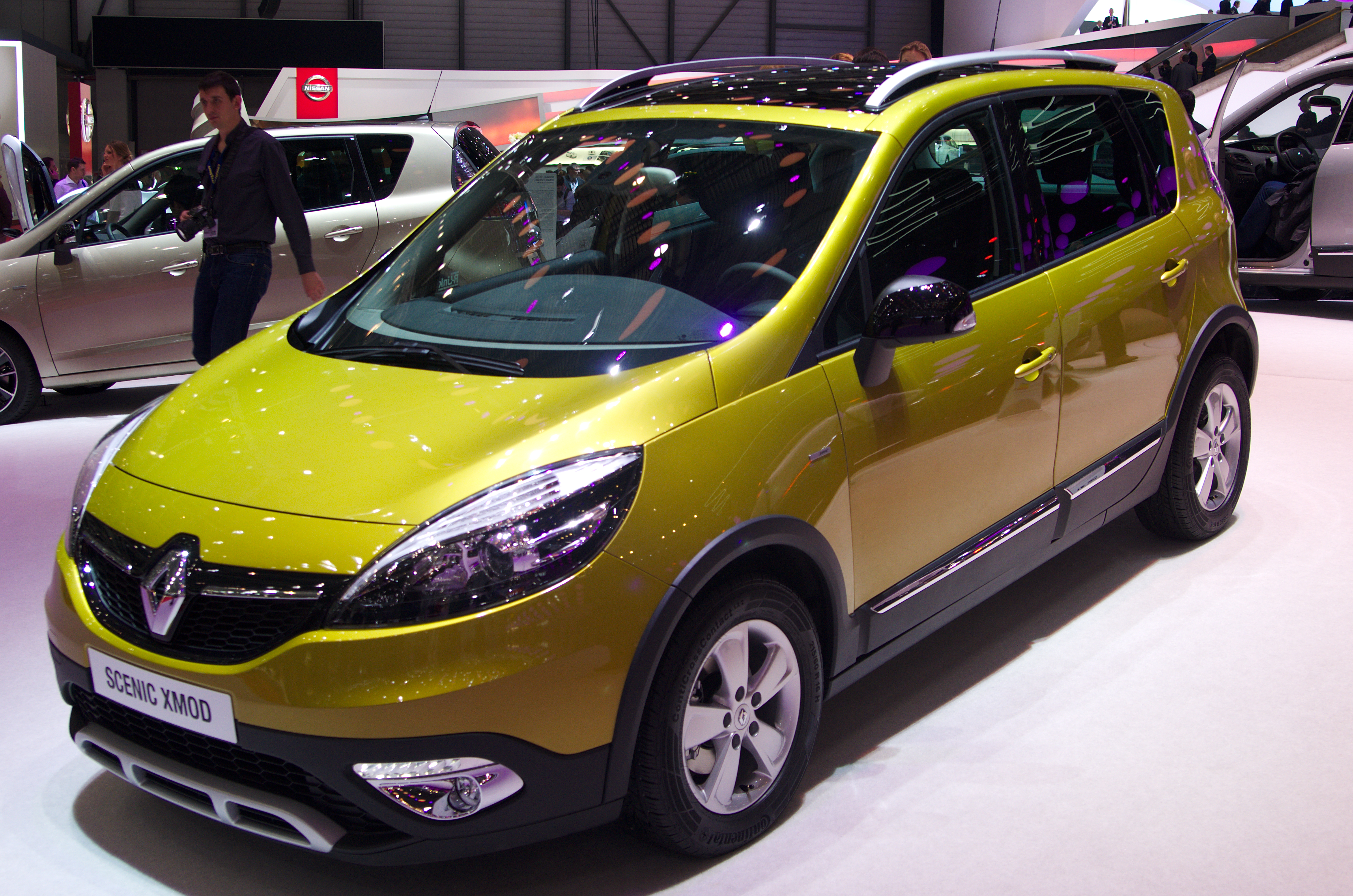 Geneva MotorShow 2013 - Renault Scenic XMod